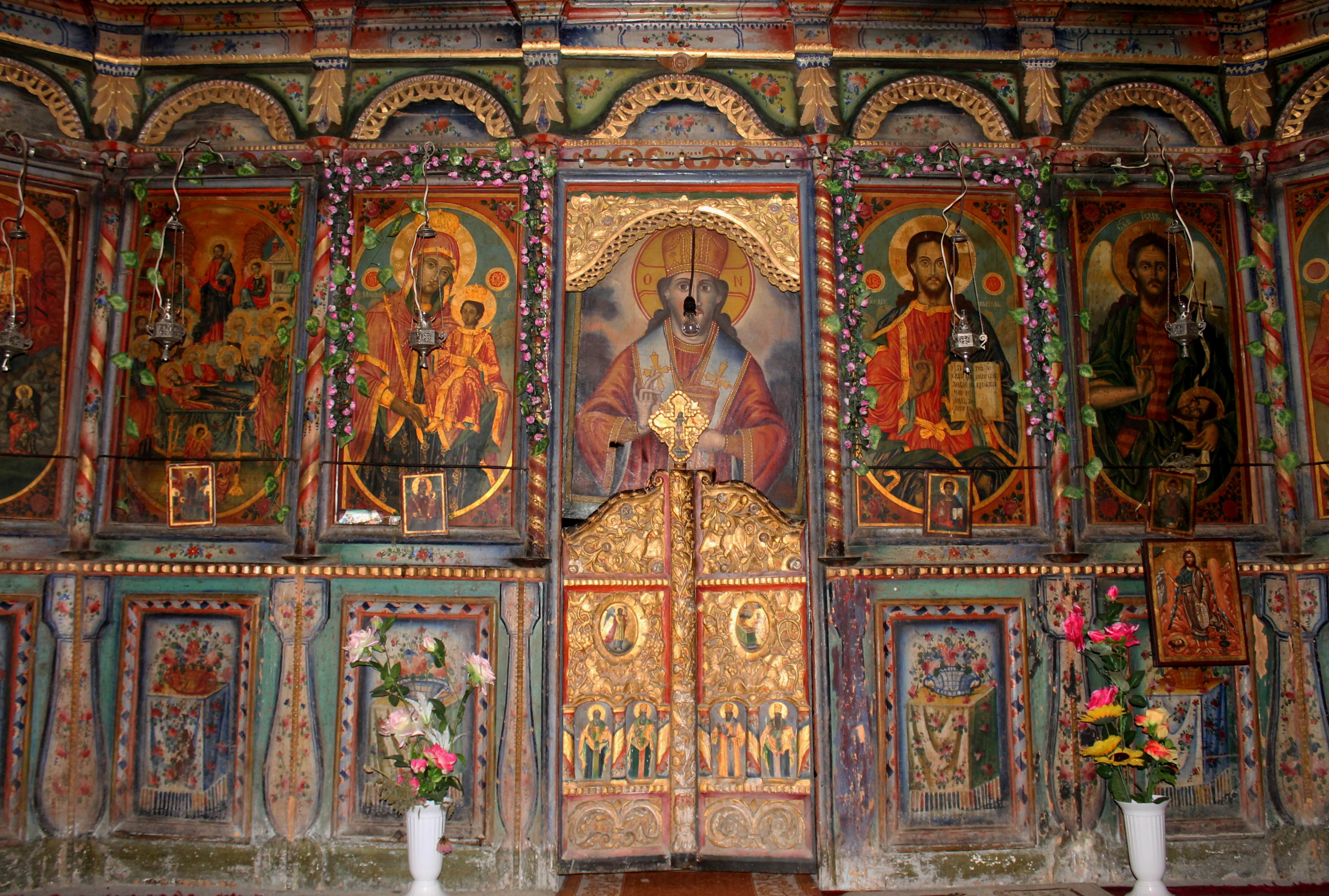 The iconostasis of the church "Dormition of the Mother of God" in the village of Dolen, Southwest Bulgaria